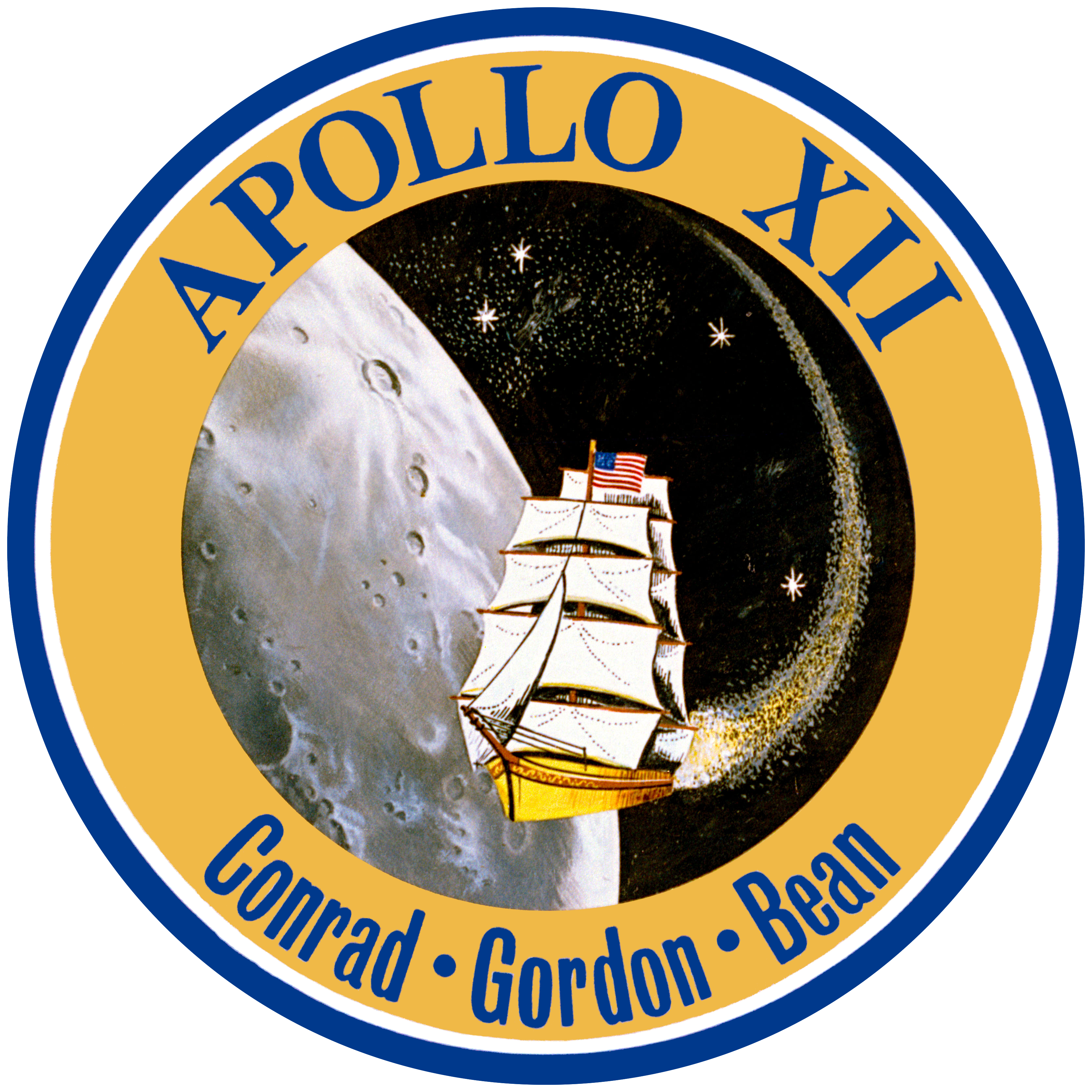 This is the official crew insignia for Apollo 12, the United States' second lunar landing mission. Crew members are astronauts Charles Conrad Jr., commander; Richard F. Gordon Jr., command module pilot; and Alan L. Bean, lunar module pilot. The clipper ship signifies that the crew is all Navy and symbolically relates the era of the clipper ship to the era of space flight. As the clipper ship brought foreign shores closer to the United States and marked the increased utilization of the seas by this nation, spacecraft have opened the way to the other planets and Apollo 12 marks the increased utilization of space-based on knowledge gained in earlier missions. The portion of the moon shown is representative of the Ocean of Storms area in which Apollo 12 will land.